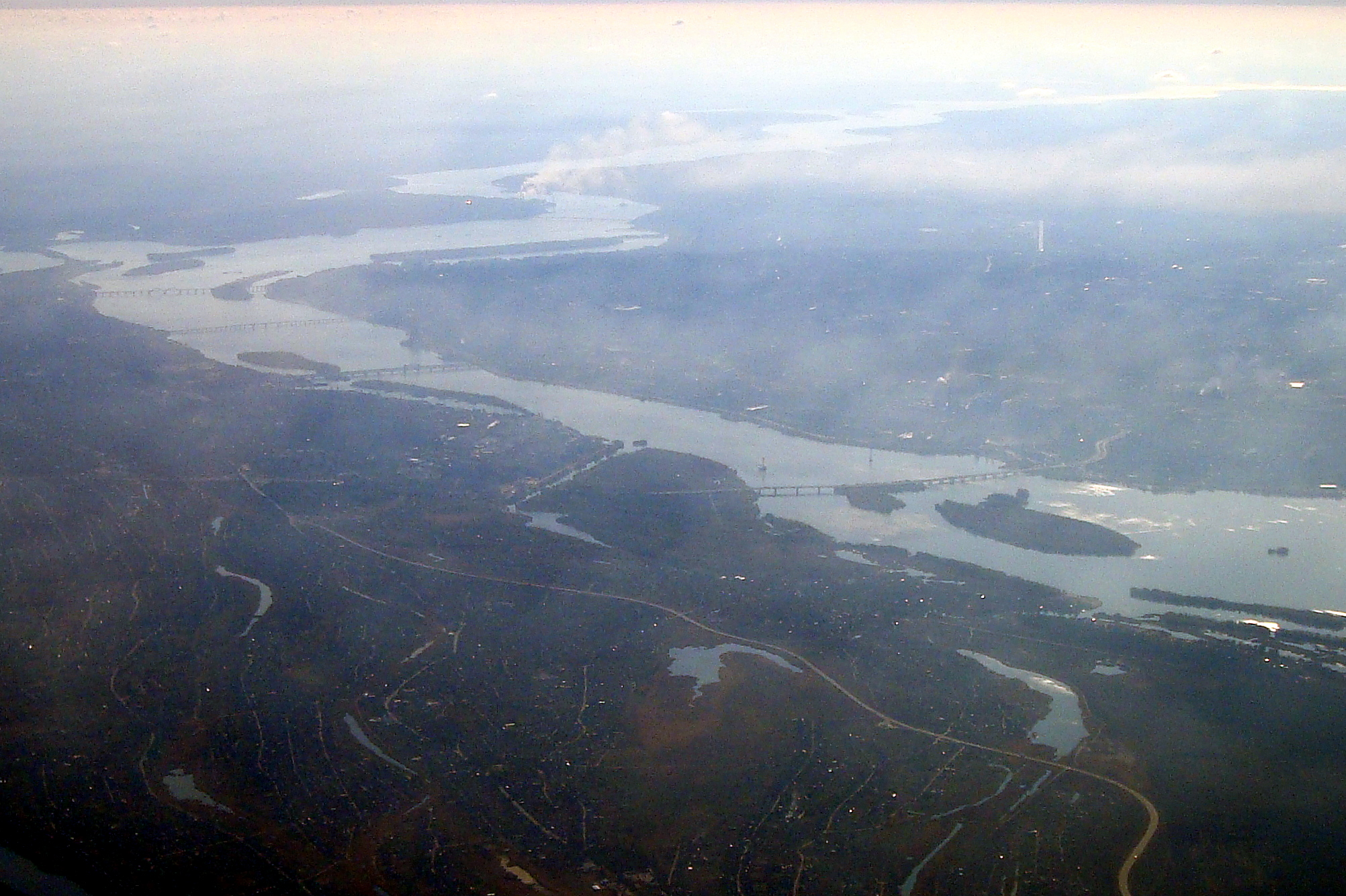 Dnipropetrovsk aerial view.